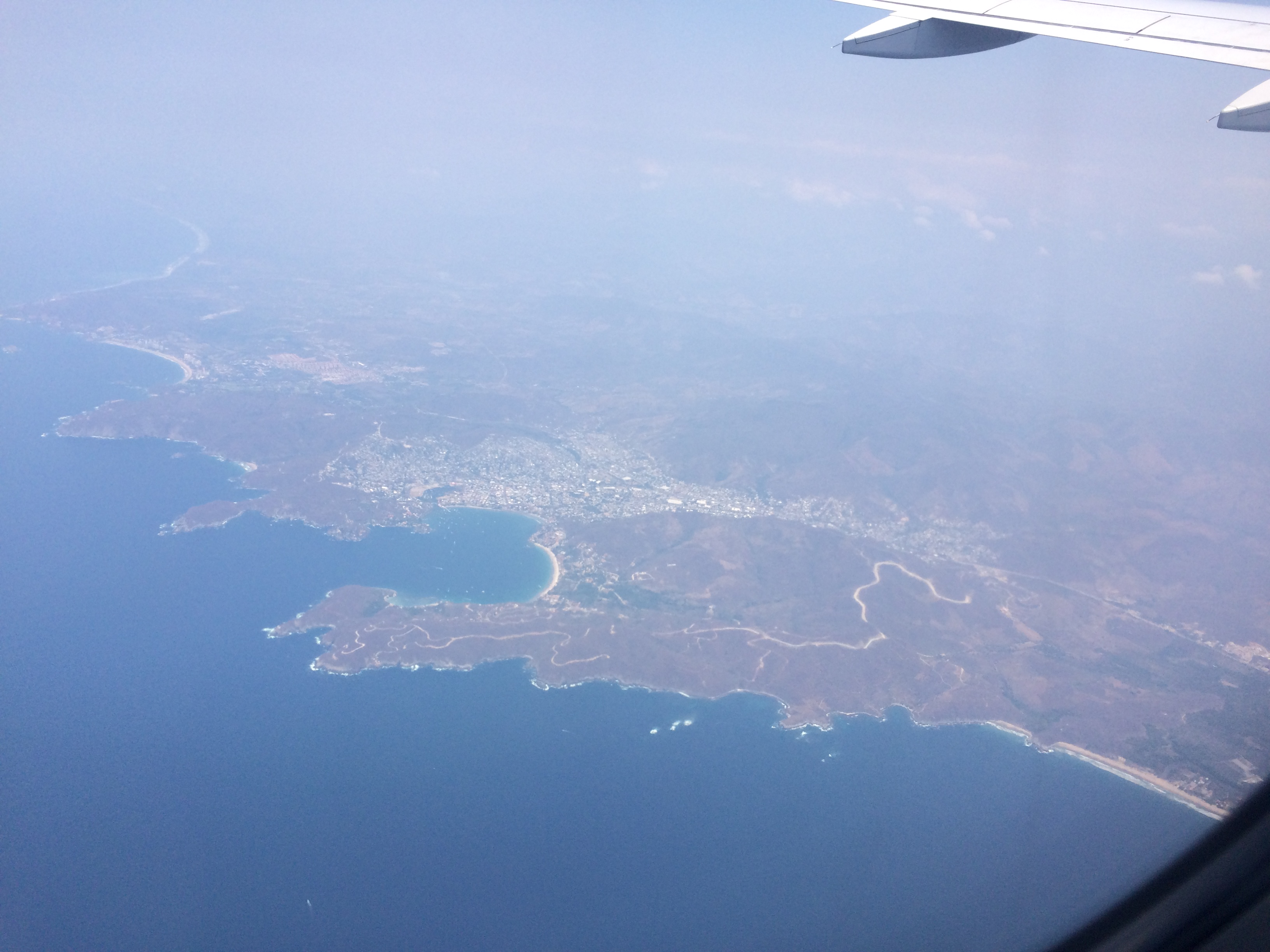 A picture of Zihuatanejo taken from an United Express jet, showing the main area of the city (Ixtapa is partially viewable from the top-left corner, on the shoreline)